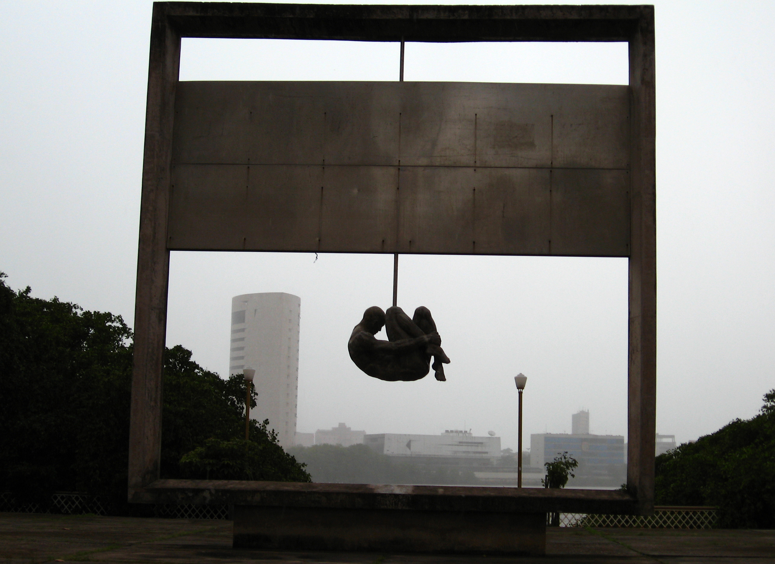 "Torture, never again" a monument, in Recife, Brasil.